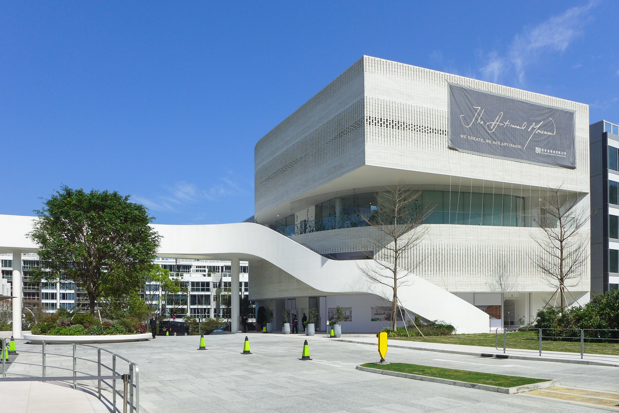 Mount Pavilia Entrance view